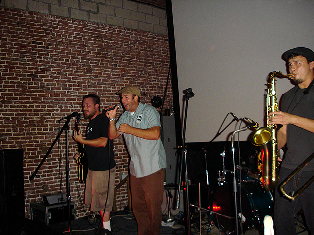 Go Jimmy Go Live at Nextdoor